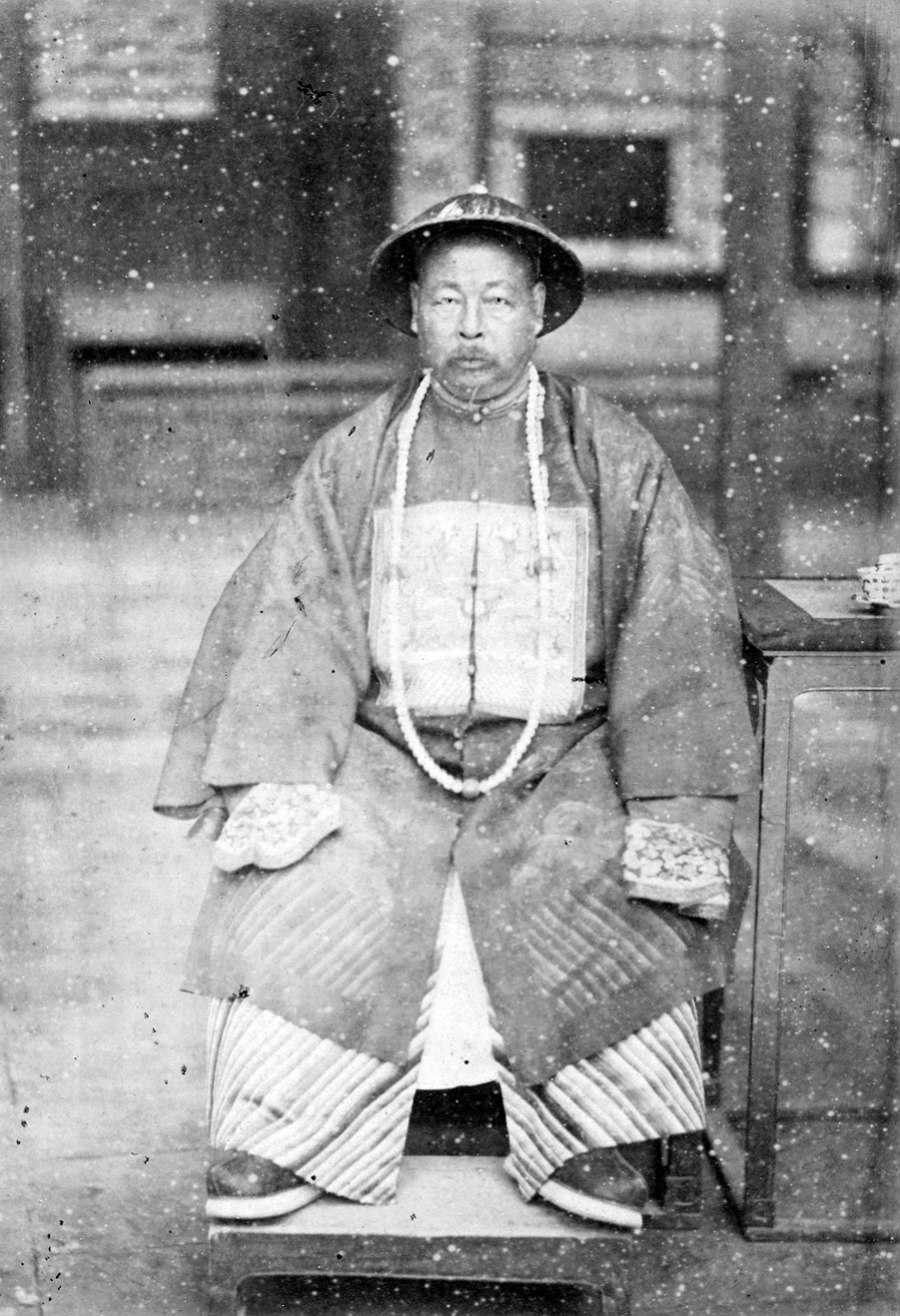 In 1874-75, the Russian government sent a research and trading mission to China to seek out new overland routes to the Chinese market, report on prospects for increased commerce and locations for consulates and factories, and gather information about the Dungan Revolt then raging in parts of western China. Led by Lieutenant Colonel Iulian A. Sosnovskii of the army General Staff, the nine-man mission included a topographer, Captain Matusovskii; a scientific officer, Dr. Pavel Iakovlevich Piasetskii; Chinese and Russian interpreters; three non-commissioned Cossack soldiers; and the mission photographer, Adolf Erazmovich Boiarskii. The mission proceeded from Saint Petersburg to Shanghai via Ulan Bator (Mongolia), Beijing, and Tianjin, and then followed a route along the Yangtze River, along the Great Silk Road through the Hami oasis, to Lake Zaysan, back to Russia. Boiarskii took some 200 photographs, which constitute a unique resource for the study of China in this period. Most of the photographs are included in this album, which later became part of the Thereza Christina Maria Collection assembled by Emperor Pedro II of Brazil and given by him to the National Library of Brazil. Chinese; Government officials; Memory of the World; Portrait photographs; Qing dynasty, 1644-1911; Zuo, Zongtang, 1812-1885